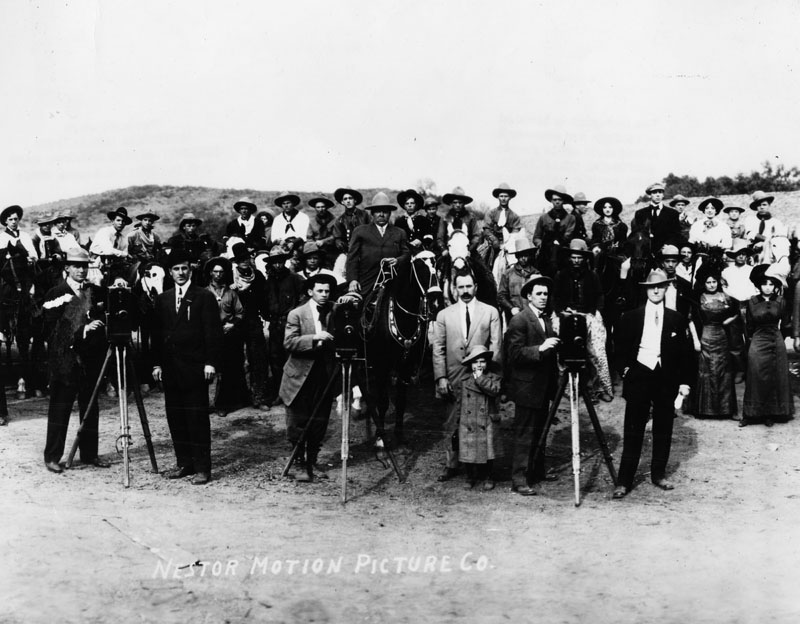 Providencia Ranch - Three cameramen pose in front of a group of men and women, on horses and on foot. The Nestor Film Studio was the first motion picture studio in Hollywood, built by David Horseley for Christie Film Co. Foreground, from left to right: 1-Bill Piltz, cameraman ( $35/wk) ; 2-Al Christie, Manager and Director of the Mutt & Jeff Comedy Co., ($50/wk) ; 3-Walter Pritchard, cameraman ($35/wk) ; 4-Milton Fahrney, Director of Westerns, ($50/wk) ; 5-Dave Horsley & Son ; 6-Tom Harding, cameraman ($35/wk) ; 7-Thomas Ricketts, dramatic director